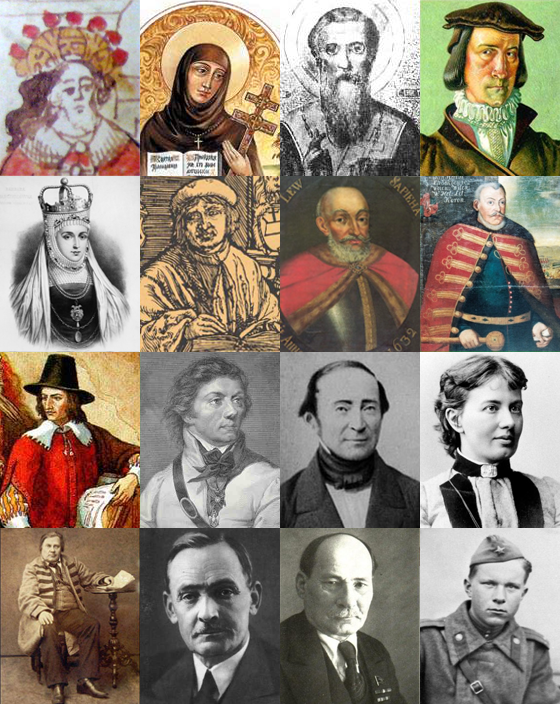 Collage of images representing the Belarusians. Features: Usiasłaŭ of Połacak; Eŭfrasińnia of Połacak; Kiryła of Turaŭ; Mikoła Husoŭski; Barbara Radzivił; Francysk Skaryna; Leŭ Sapieha; Jan Karal Chadkievič; Kazimier Siemianovič; Tadevuš Kaściuška; Ihnat Damiejka; Sofja Kavaleŭskaja; Vincent Dunin-Marcinkievič; Janka Kupała; Jakub Kołas; Vasil Bykaŭ